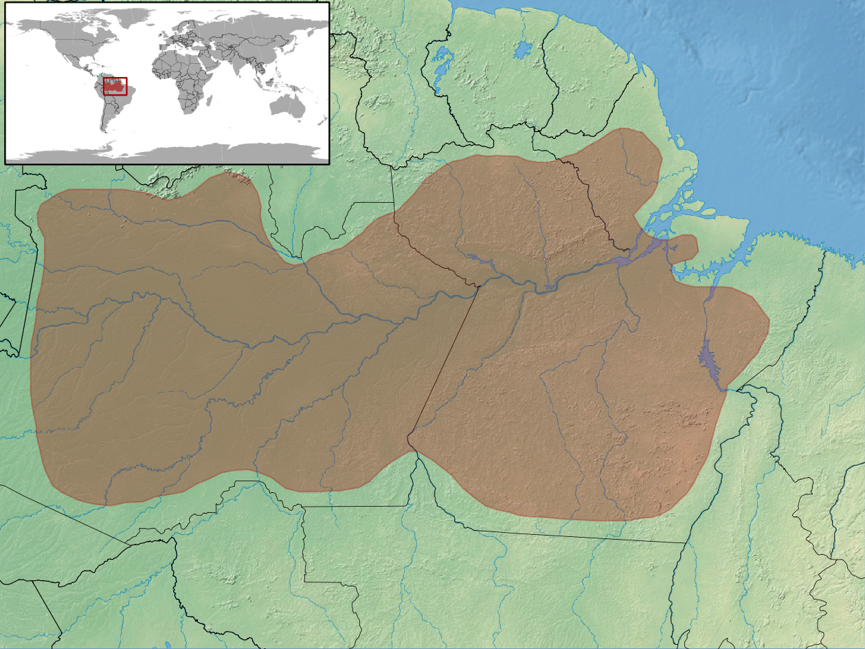 geographic distribution of Mabuya bistriata (IUCN) syn. Varzea bistriata (RDB)